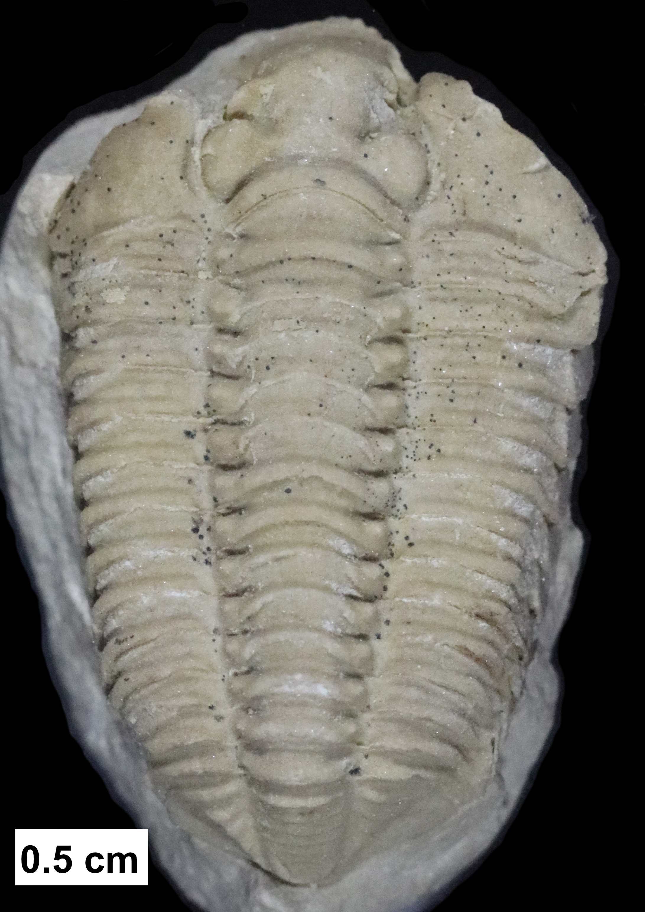 The Silurian trilobite Calymene celebra Raymond, 1916; Racine Dolomite Formation, inter-reef; Brookfield, Wisconsin; K.C. Gass collection. Wisconsin’s State fossil.